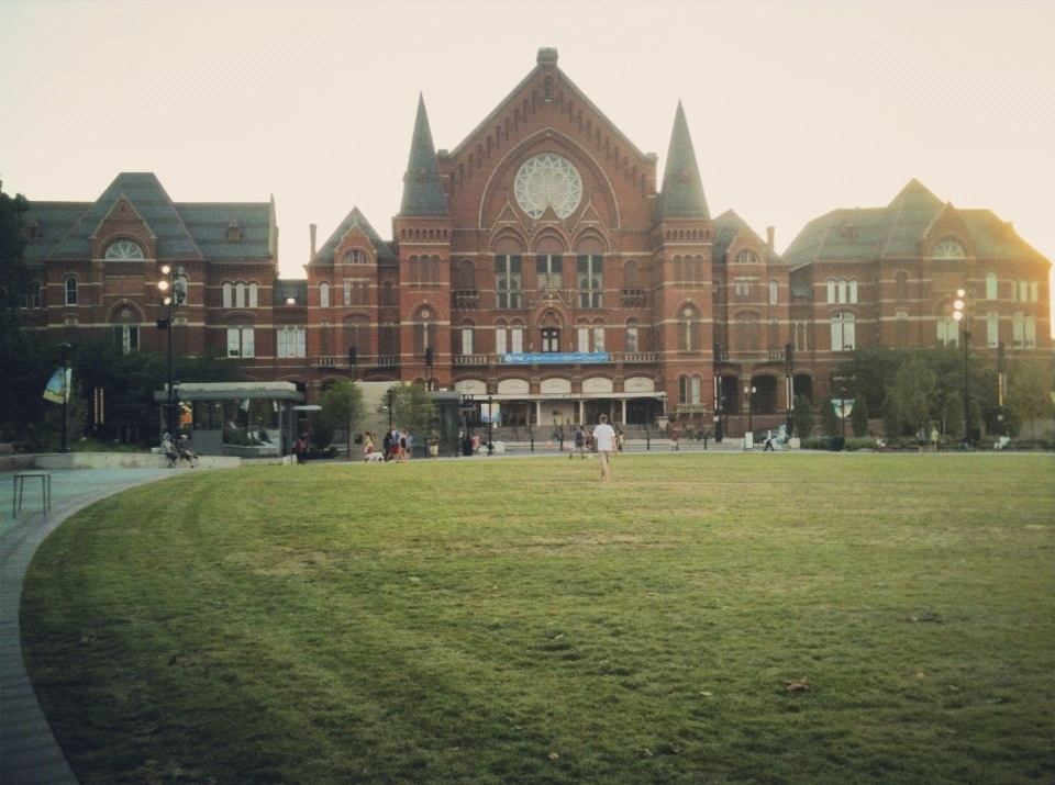 A view of Music Hall from Washington Park in Cincinnati, Ohio